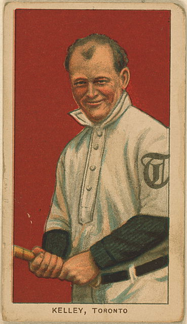 Joe Kelley baseball card, American Tobacco Company, 1909 From the collection of the Library of Congress and believed to be in the public domain